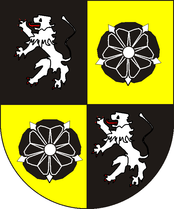 coats of arms of the lordship of Wildenfels in the coats of arms of Solms